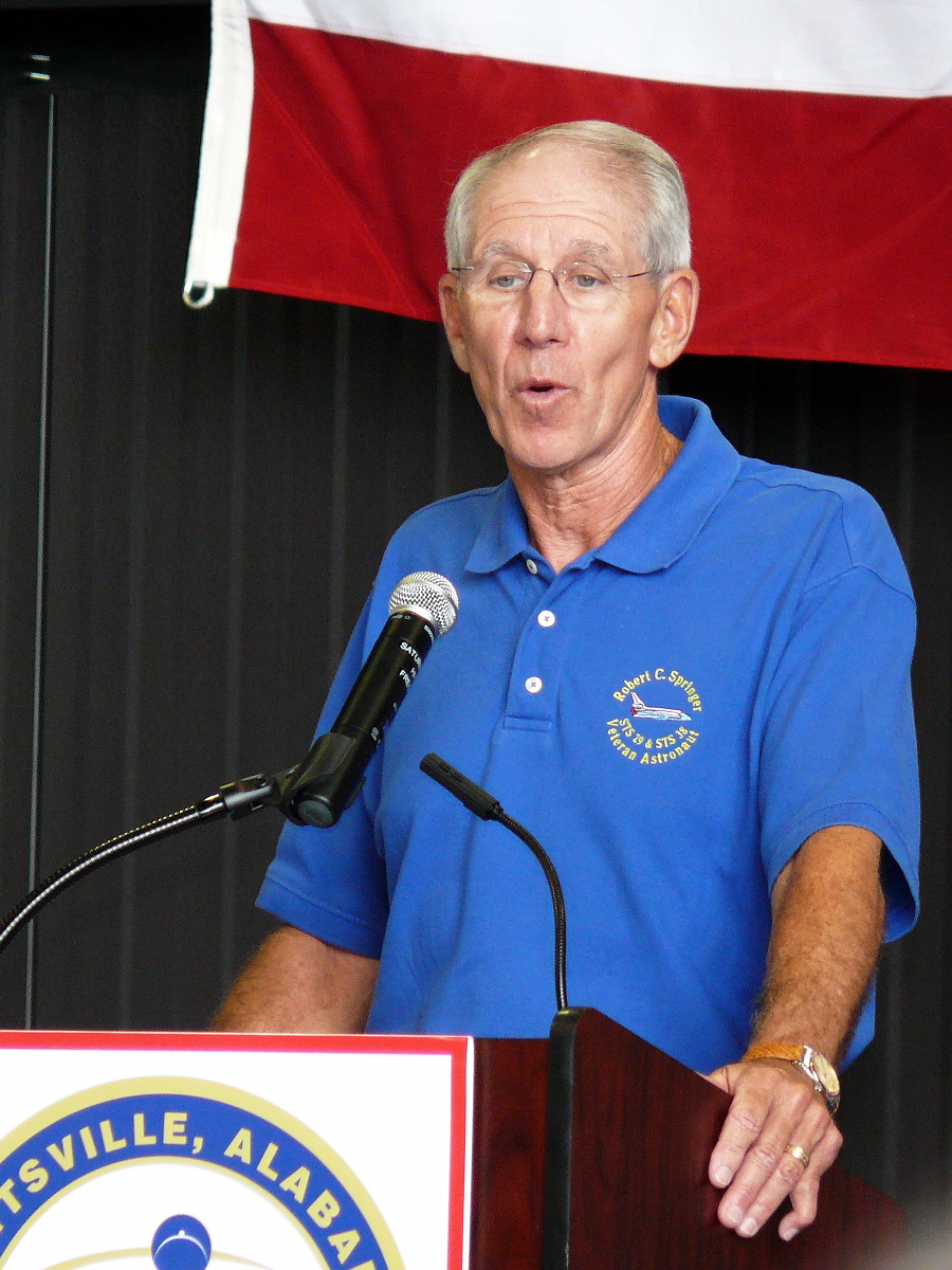 Robert C. Springer flew 550 combat missions as a U.S. Marine aviator during the Vietnam War. He went on to join NASA in 1981 and flew two missions (STS-29 & STS-38) with the Space Shuttle program. Springer is seen here delivering the commencement address at a Space Camp graduation in the main hall of the Davidson Center for Space Exploration at the U.S. Space & Rocket Center. Photo taken with a Panasonic Lumix DMC-FZ50 in Huntsville, AL, USA.